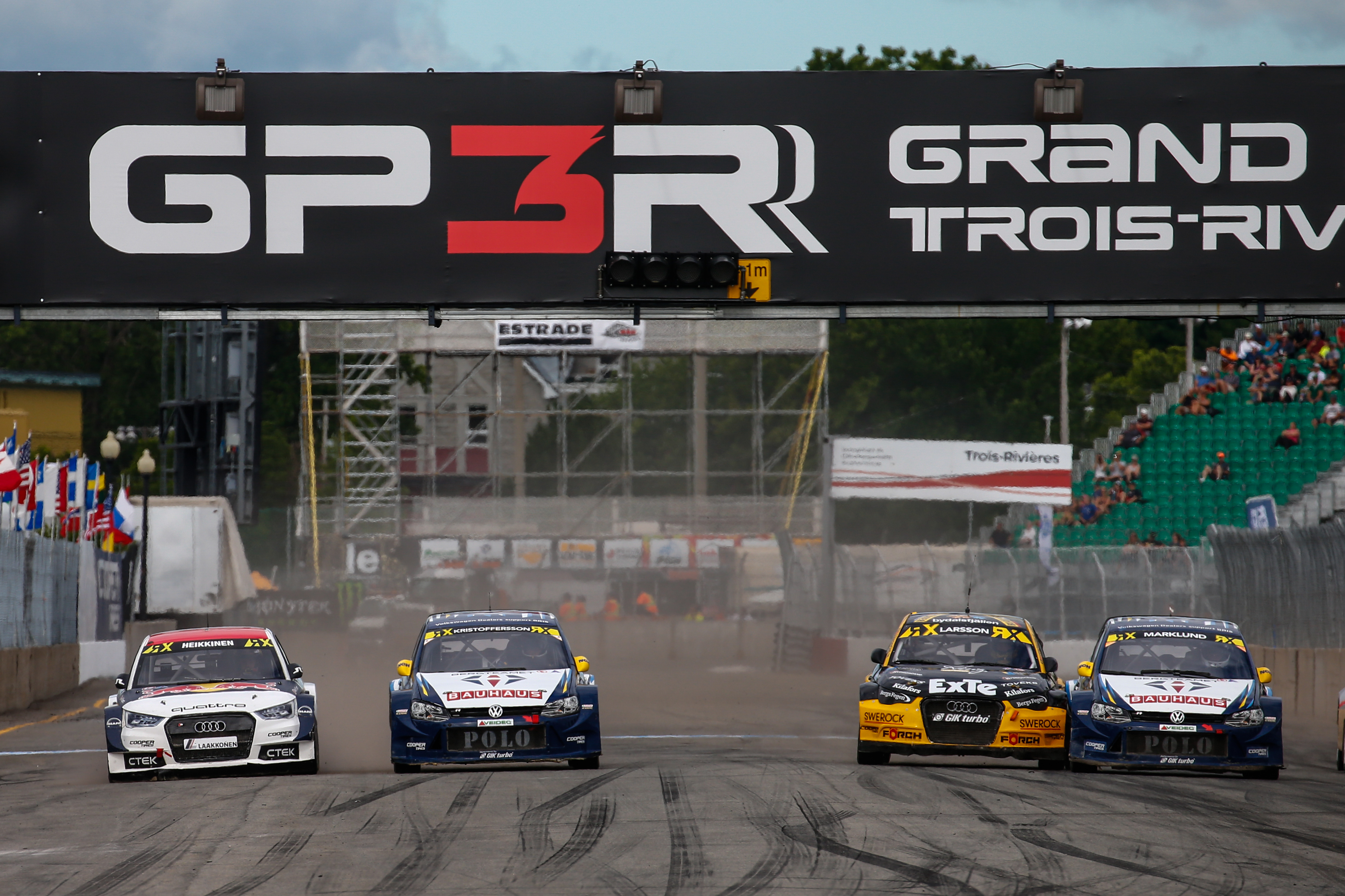 2016 FIA World Rallycross Championship / Round 07, Trois Rivieres, Canada / August 05-07 2016 // Worldwide Copyright: Colin McMaster/EKS/McKlein